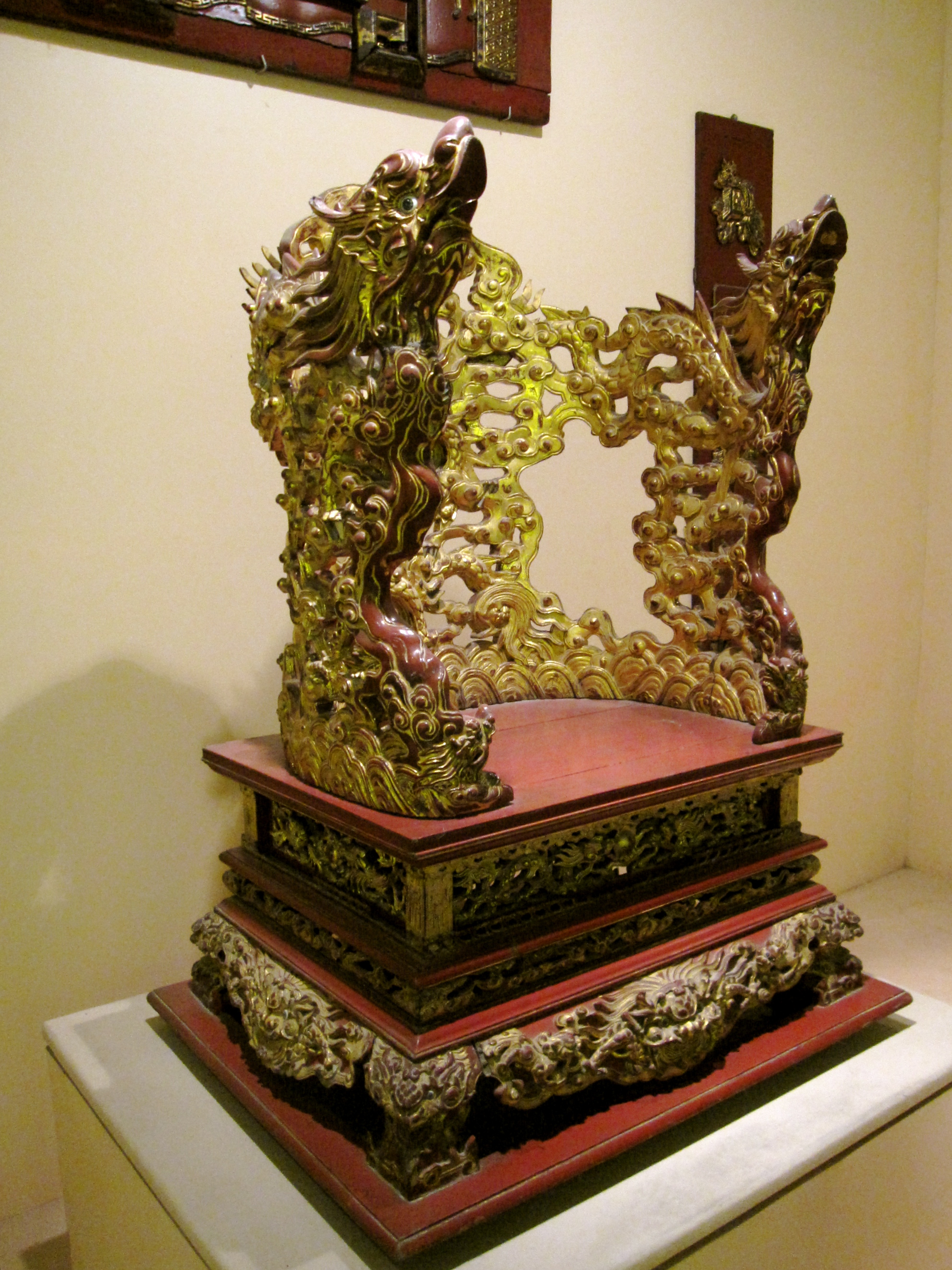 Altar in shape of a chair. Crimson and gilded wood, Nguyễn dynasty, 19th-early 20th century. Ritual use. National Museum of Vietnamese History, Hanoi.